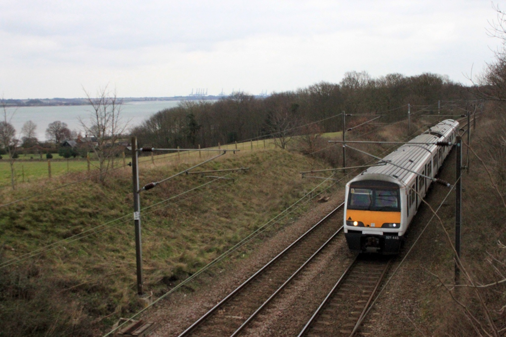 Greater Anglia's 321445 approaches Wrabness in Essex with a train from Harwich to Manningtree.